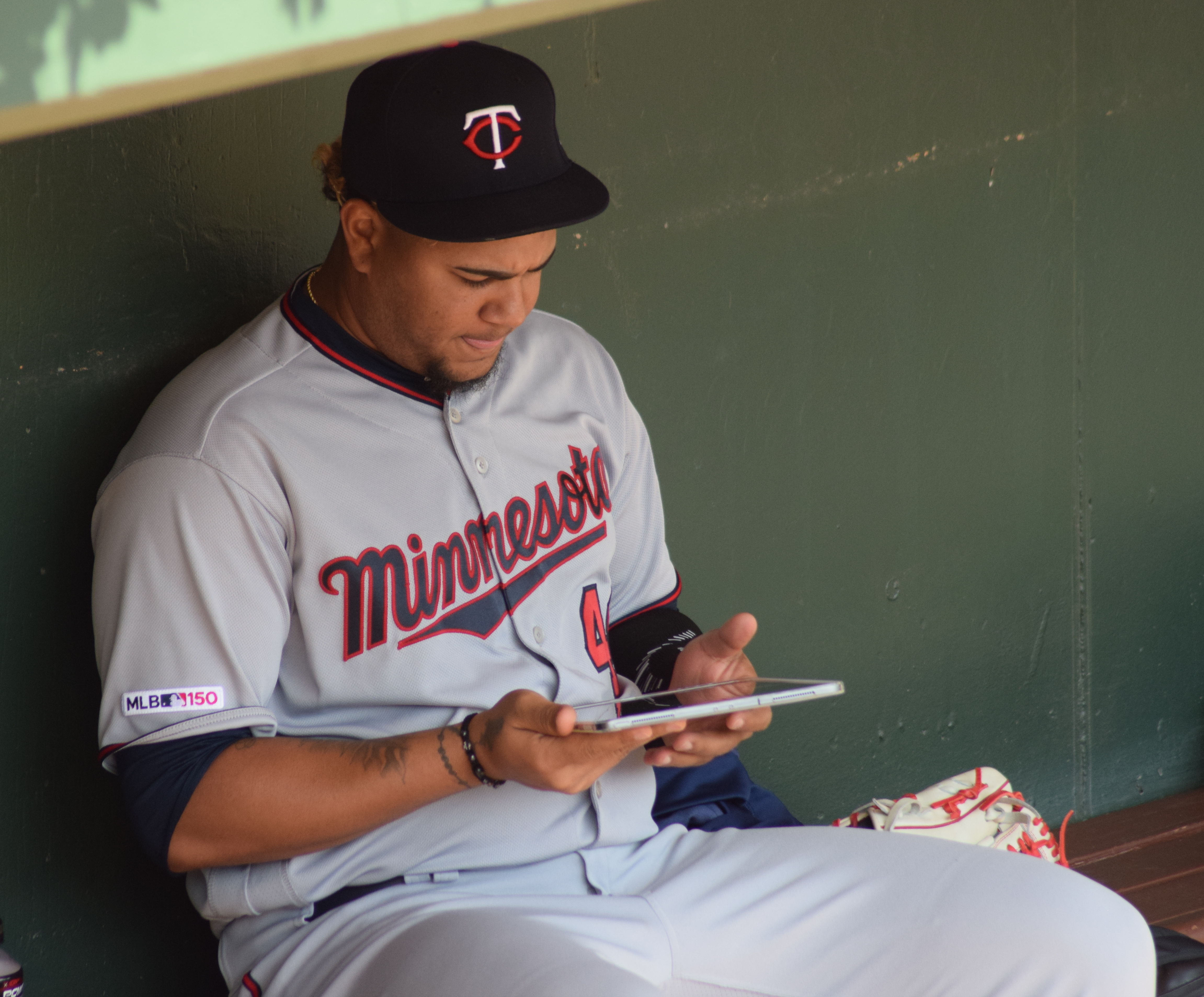 Adalberto Mejia of the Minnesota Twins uses a tablet during a 2019 game at Citizens Bank Park in Philadelphia